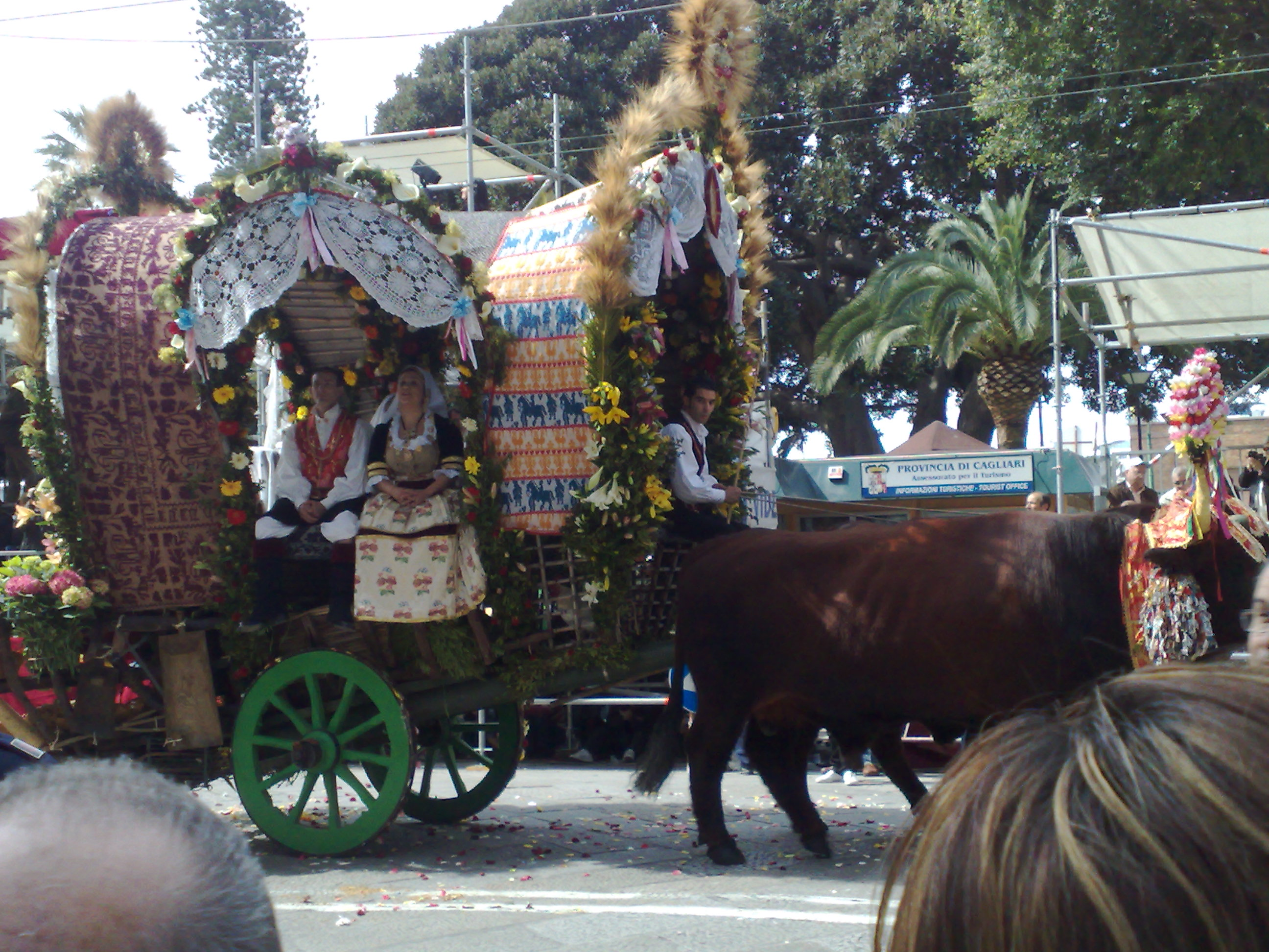 The traccas is a traditional transport in Sardegna